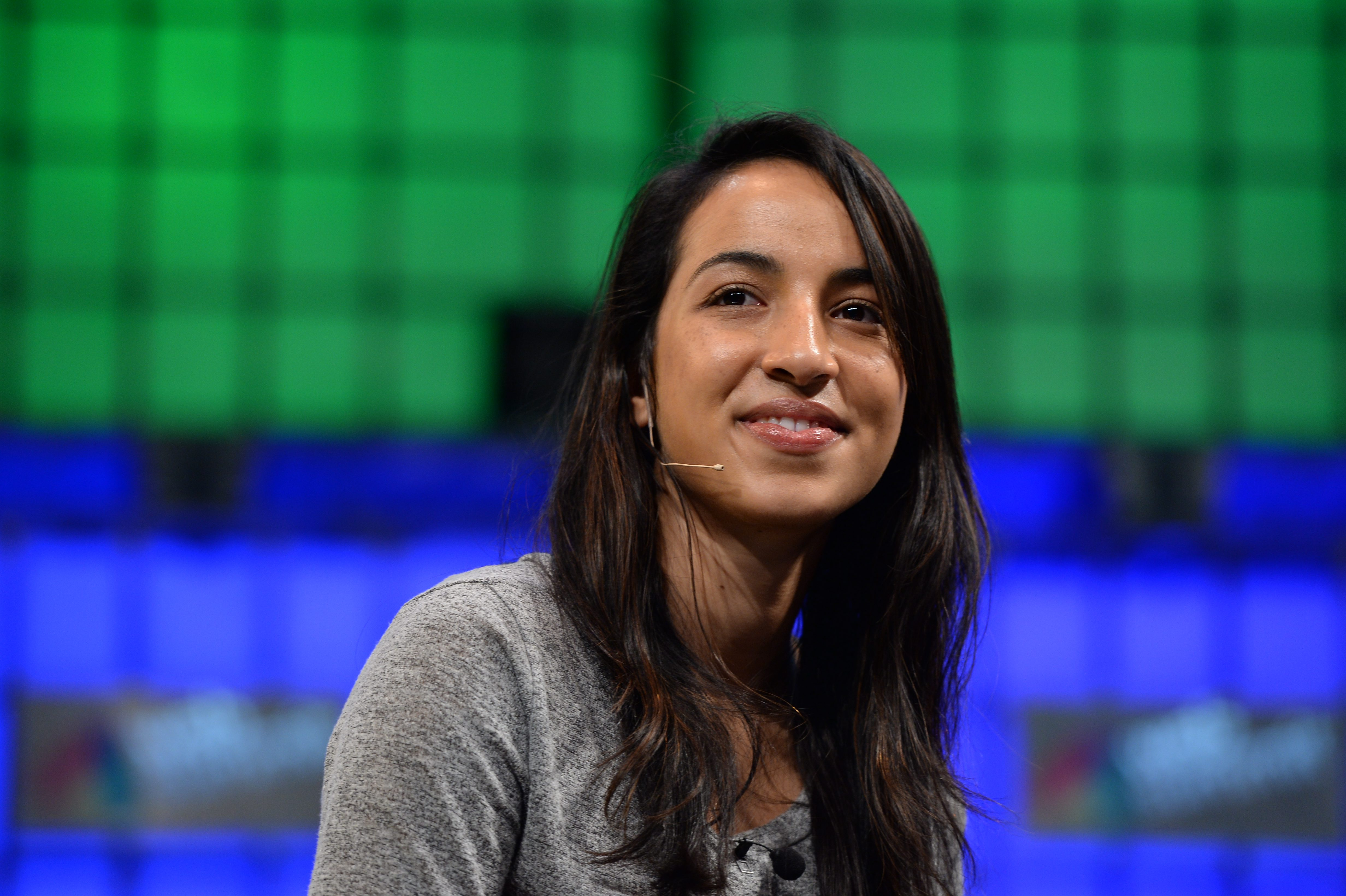 American entrepreneur Noor Siddiqui at WebSummit 2014.